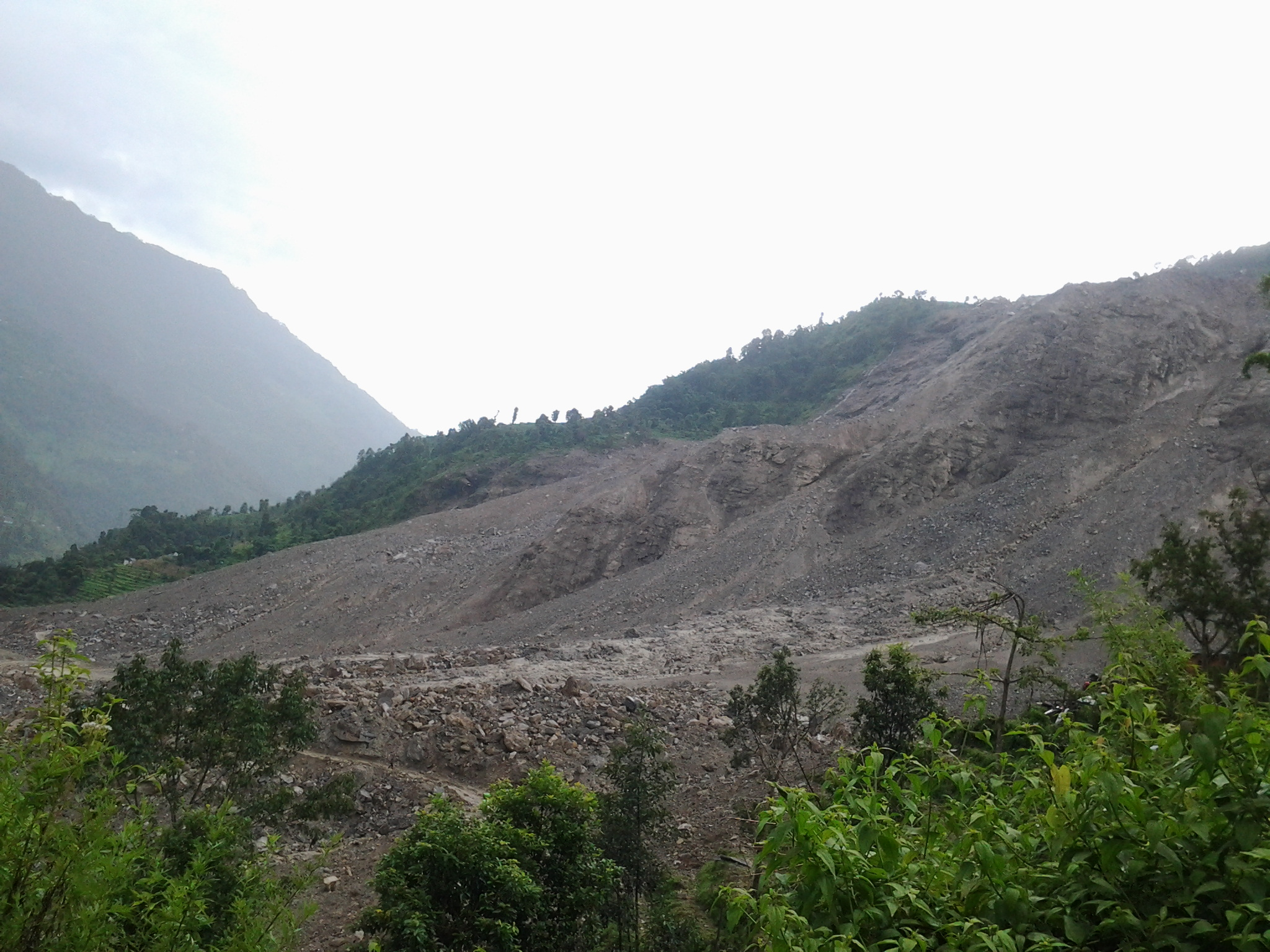 This is an image of Jure and its surrounding after the landslide.